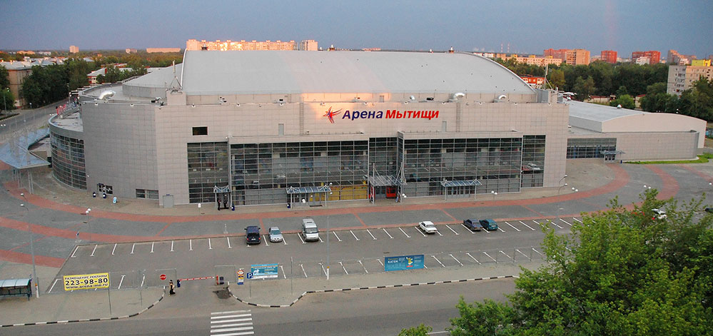 Mytishchi Arena, seen from Ulitsa Lyotnaya